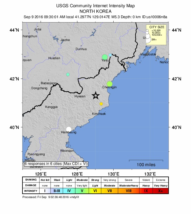 M5.3 Explosion - 19km ENE of Sungjibaegam, North Korea